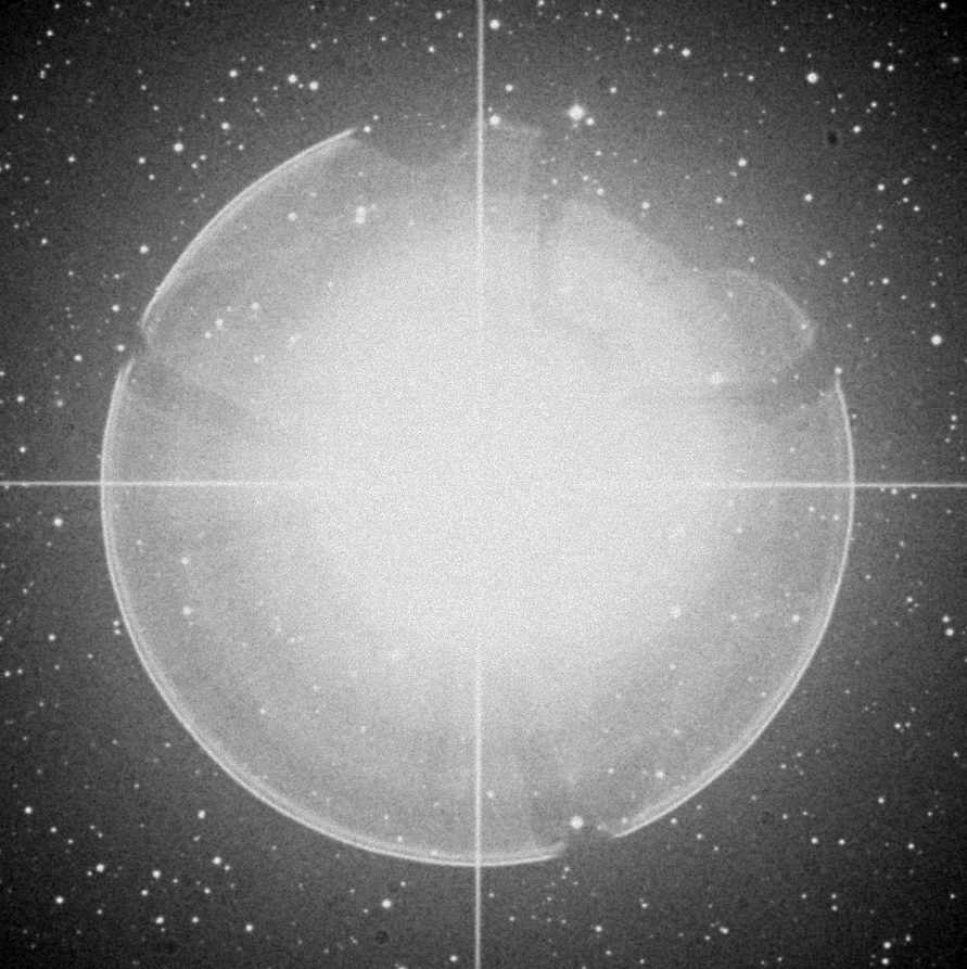 Betelgeuse is one of three stars that make up the Winter Triangle, and it marks the center of the Winter Hexagon.